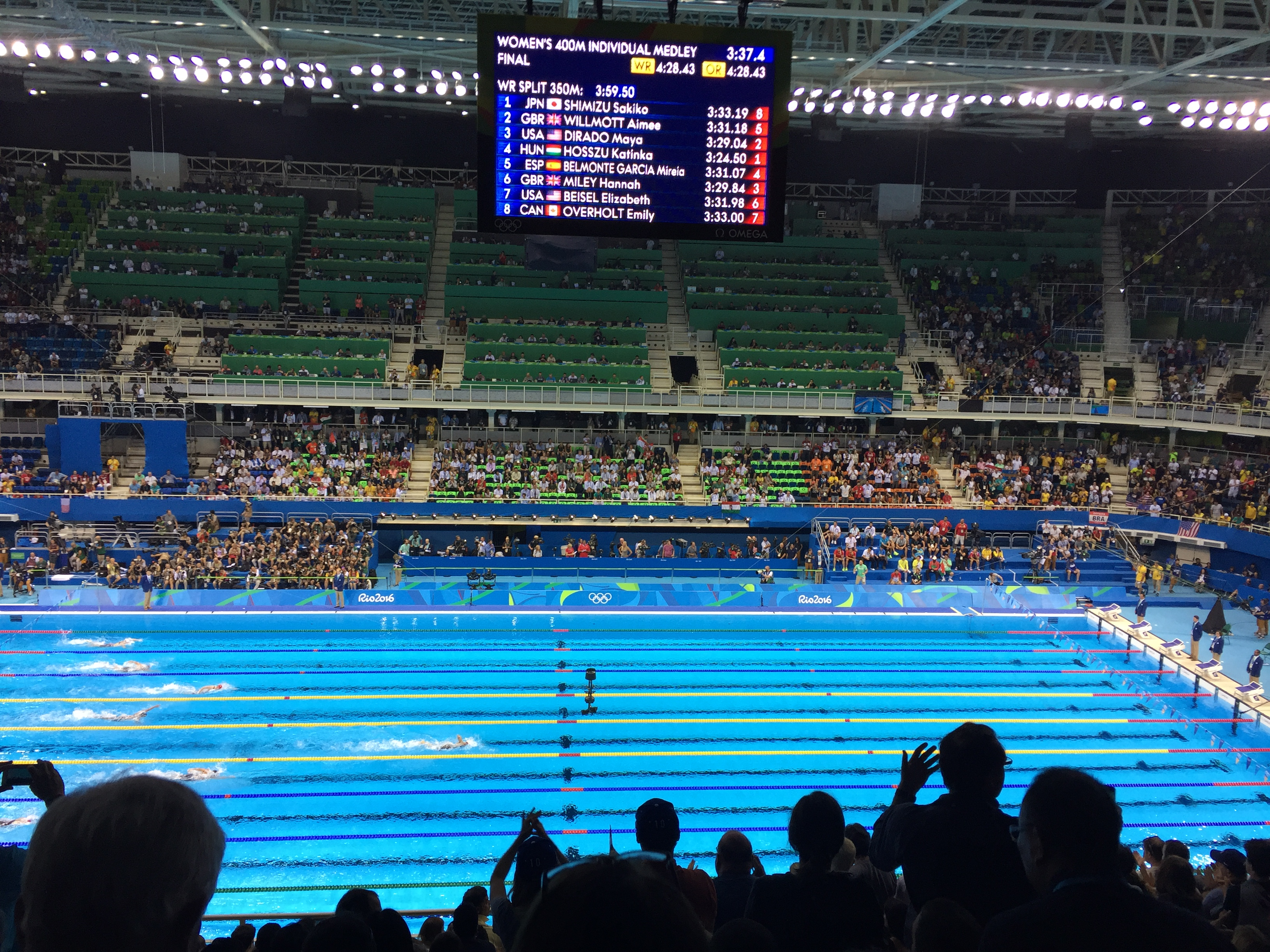 Rio 2016 Olympics - Swimming 6 August evening session